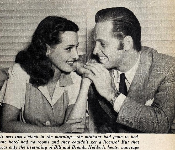 Brenda Marshall and William Holden, 1955